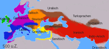 part of the series 5500, 4500, 3500, 2500, 1500, 500 BP; goto Image_talk:IE5500BP.png.